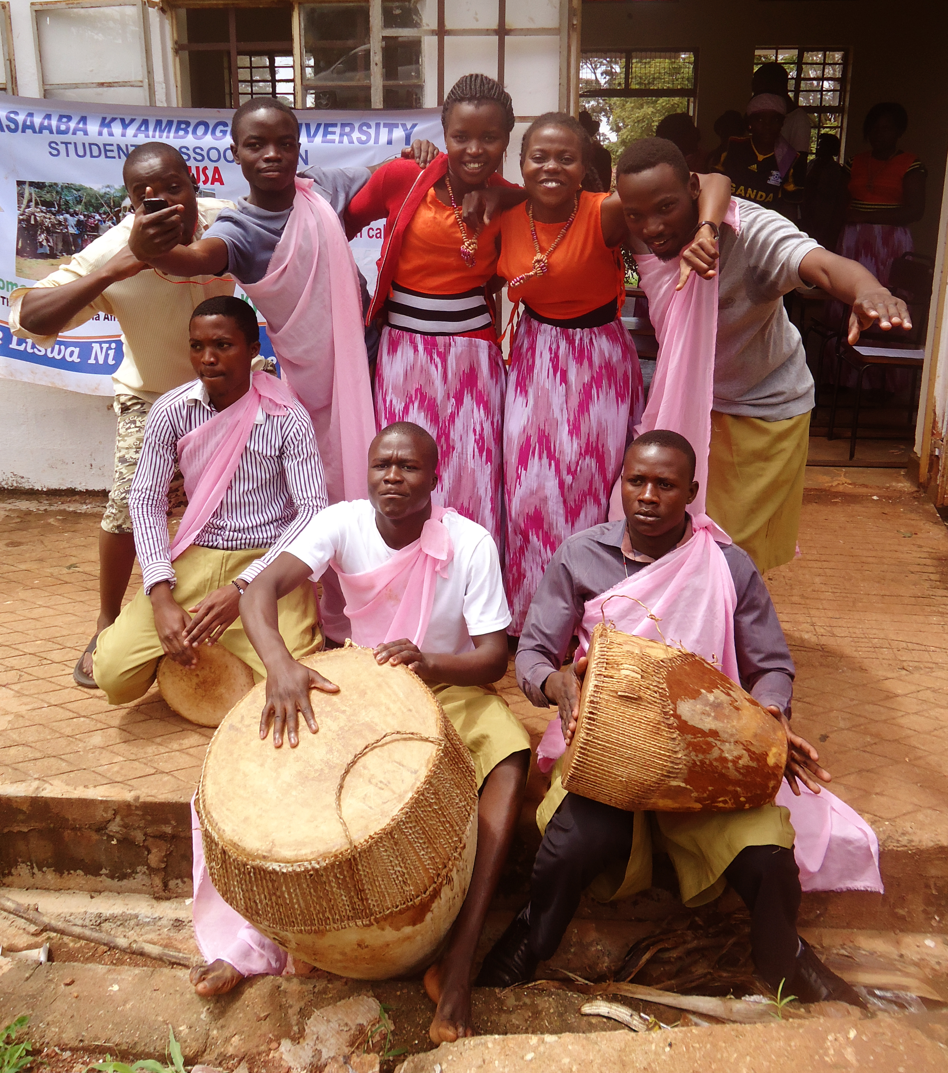 Bamasaba cultural dancers ready to perform This is an image of Cultural Fashion or Adornment from Uganda